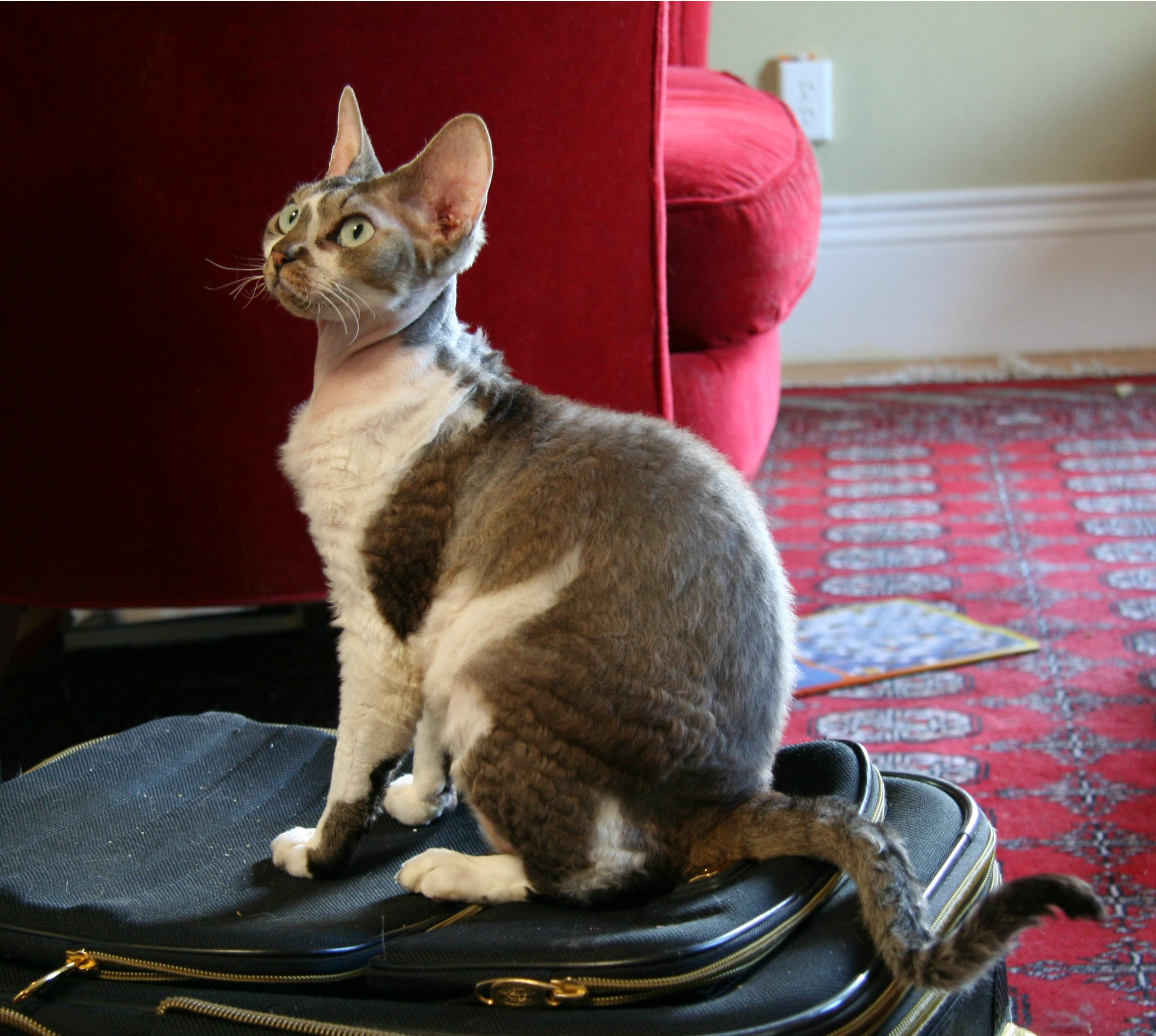 Brown and white Devon Rex